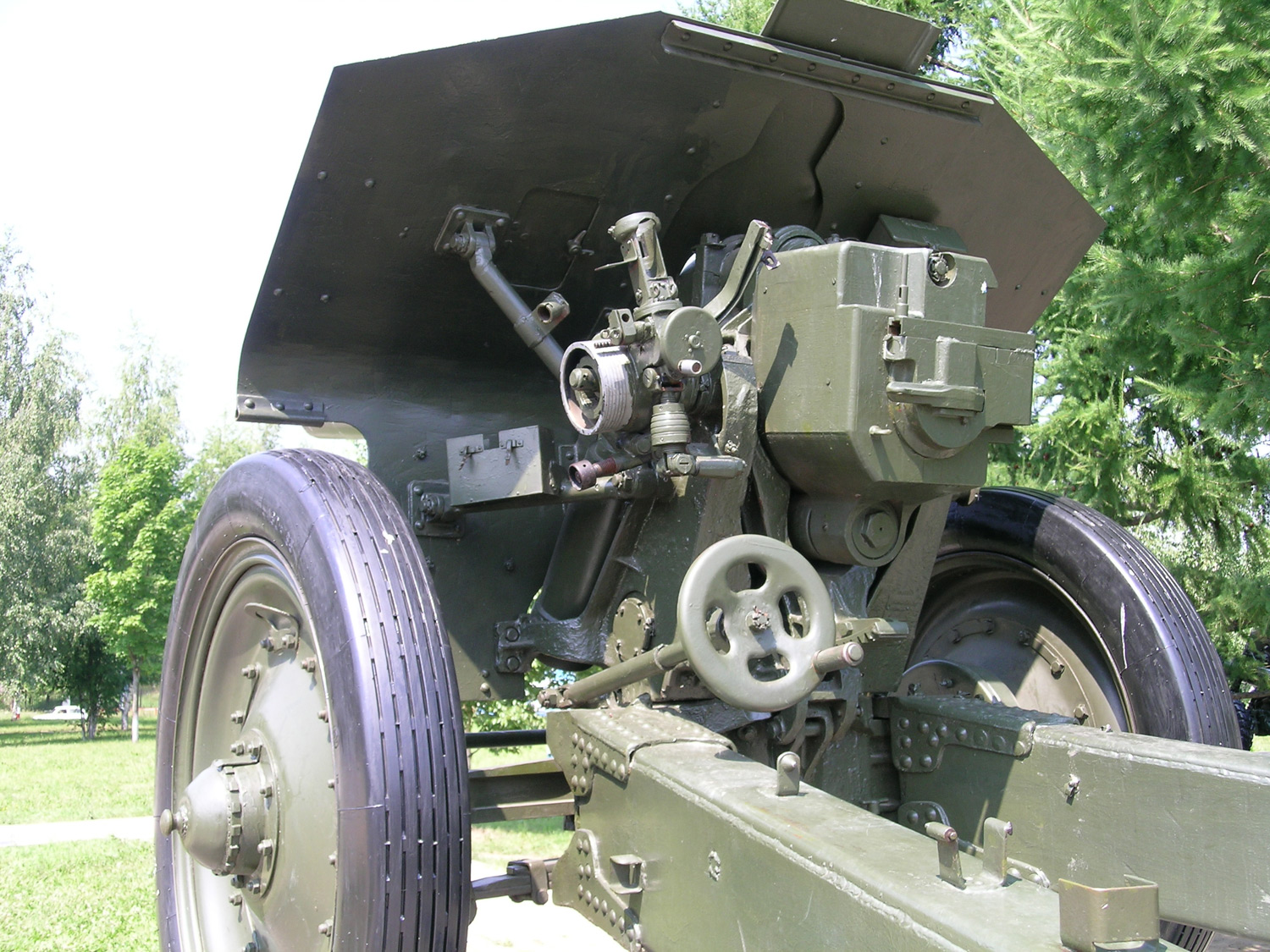 122-mm howitzer model 1938 (M-30) as a monument in Great Patriotic War memorial at Marshal Zhukov Square, city of Nizhny Novgorod, Russia. Close view from breech side. Author: S. Filatov, 2006